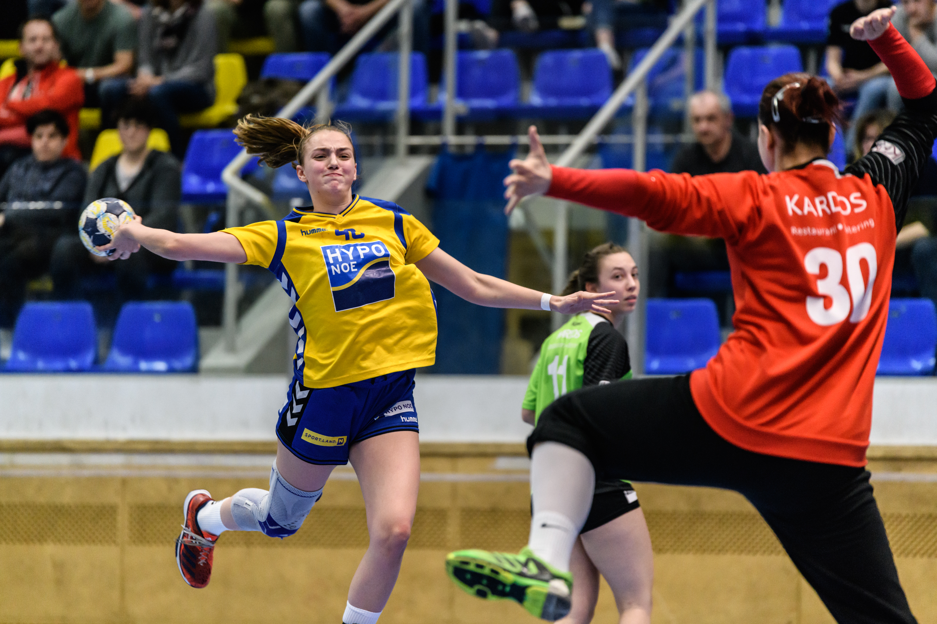 Women Handball Austria, Hypo NÖ vs. UHC Müllner Bau Stockerau 2018/04/07. Picture shows Nina Neidhardt (Hypo NÖ, Anna Kvasnicova (UHC Stockerau).